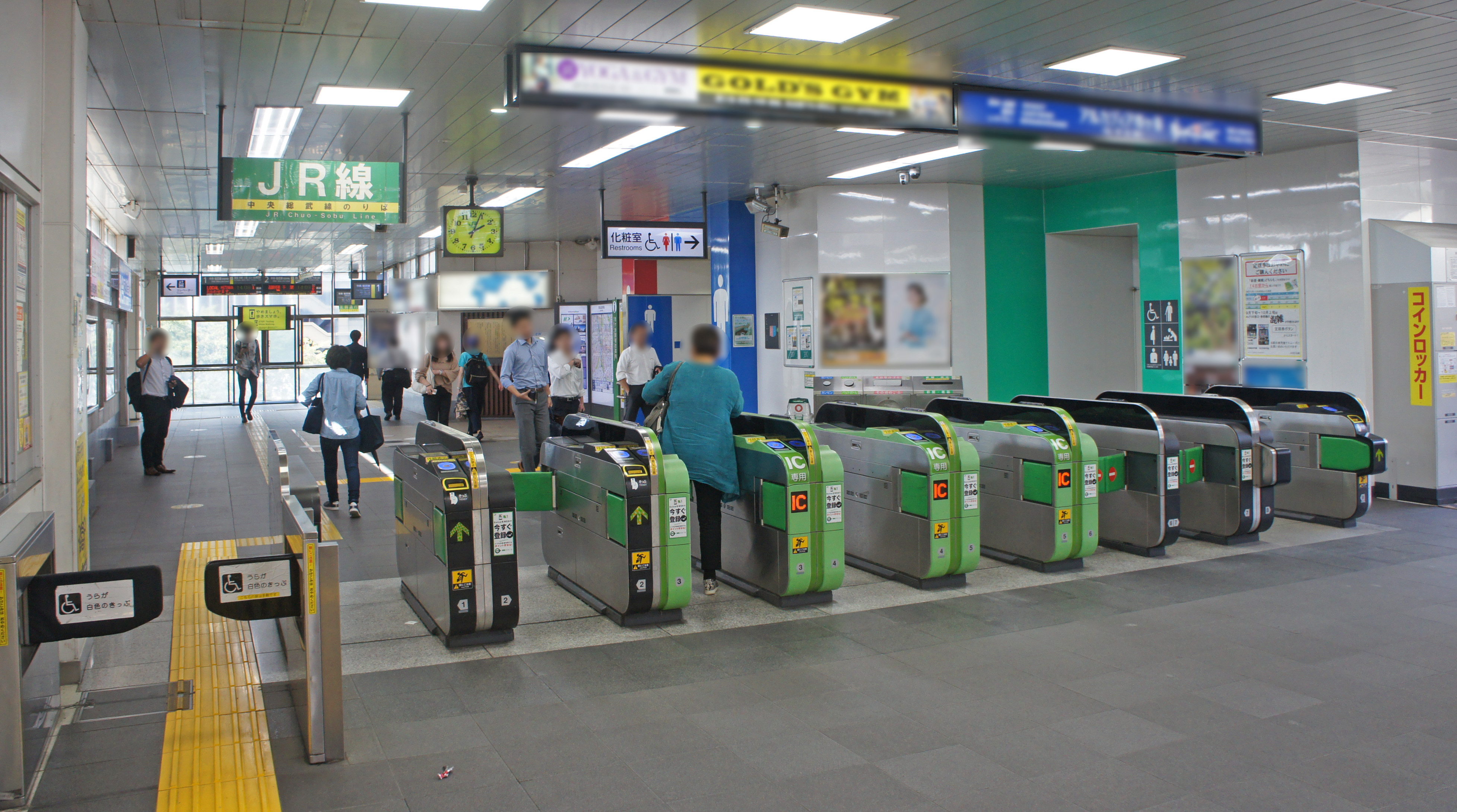 Gates of JR Chuo-Main-Line Ichigaya Station